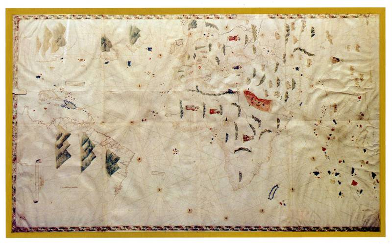 The Pesaro Planisphere, ca. 1505.